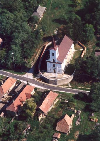 Krasznokvajda, Hungary, aerialphotography This is a photo of a monument in Hungary, Identifier: 2867